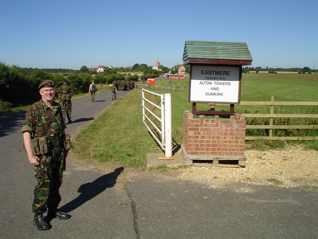 Entrance to the Eastmere Training Village An artificial village for infantry training, in the Stanford Training Area. Given what goes on in there, you will appreciate the "squaddie humour"...